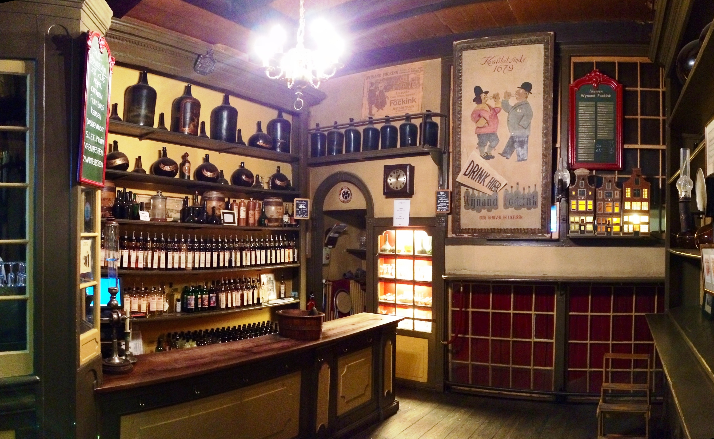 The Proeflokaal of Wynand Fockink at Pijlsteeg 31 in Amsterdam.